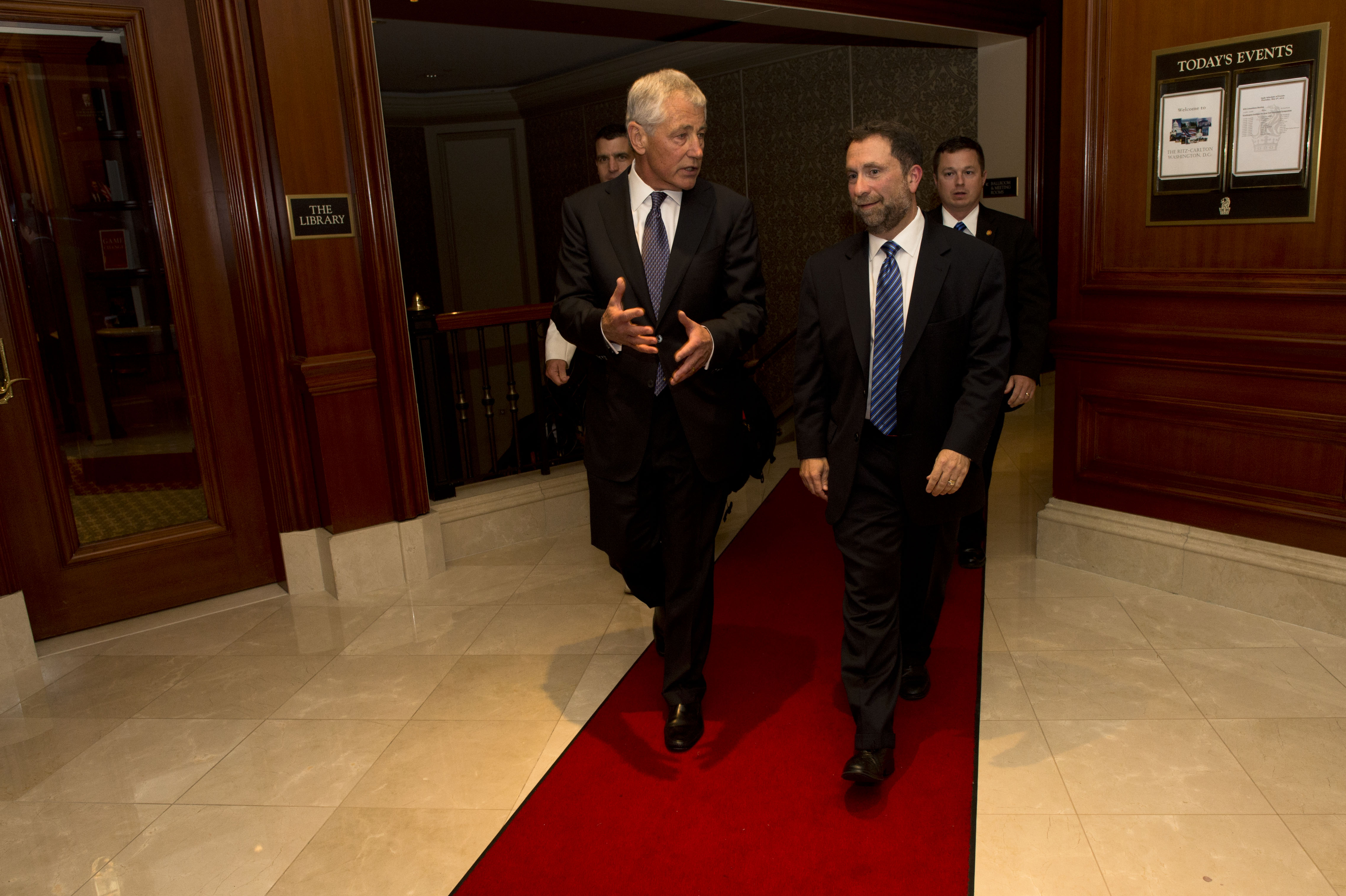 Secretary of Defense Chuck Hagel walks with The Washington Institutes executive director Robert Satloff at the Washington Institute for Near East Policies 2013 SOREF Symposium in Washington, D.C., May 9, 2013. Hagel addressed the U.S. Defense Policy in the Middle East and referenced his recent trip to the area. Photo by Erin A. Kirk-Cuomo (Released)